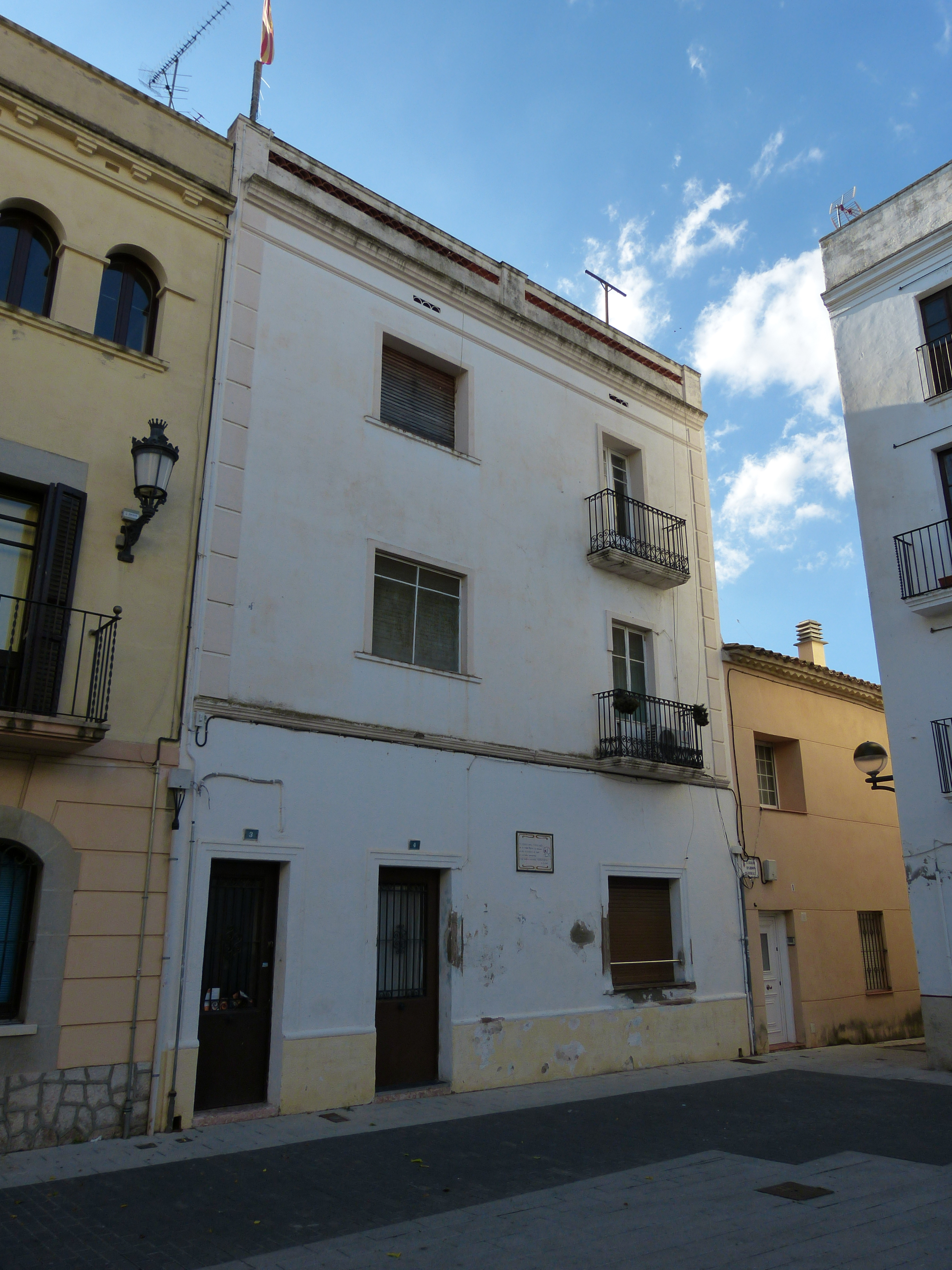 Charlie Rivel - Born in this house